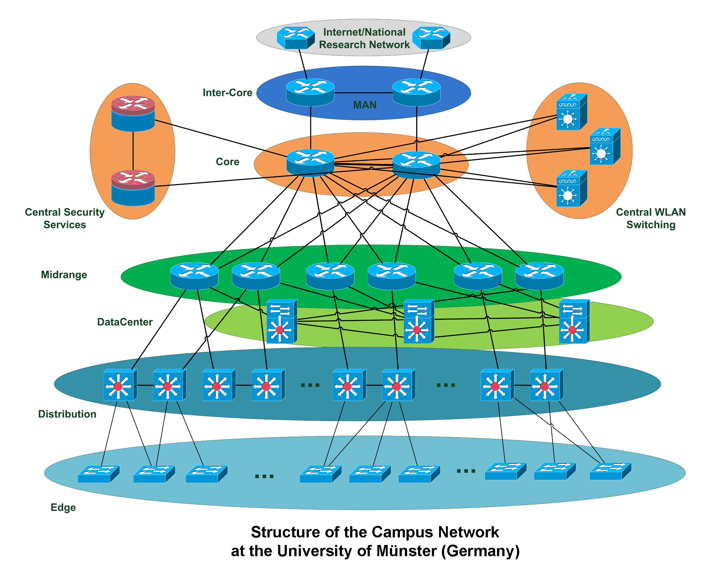 Structure of the Campus Network at the University of Münster (Germany)